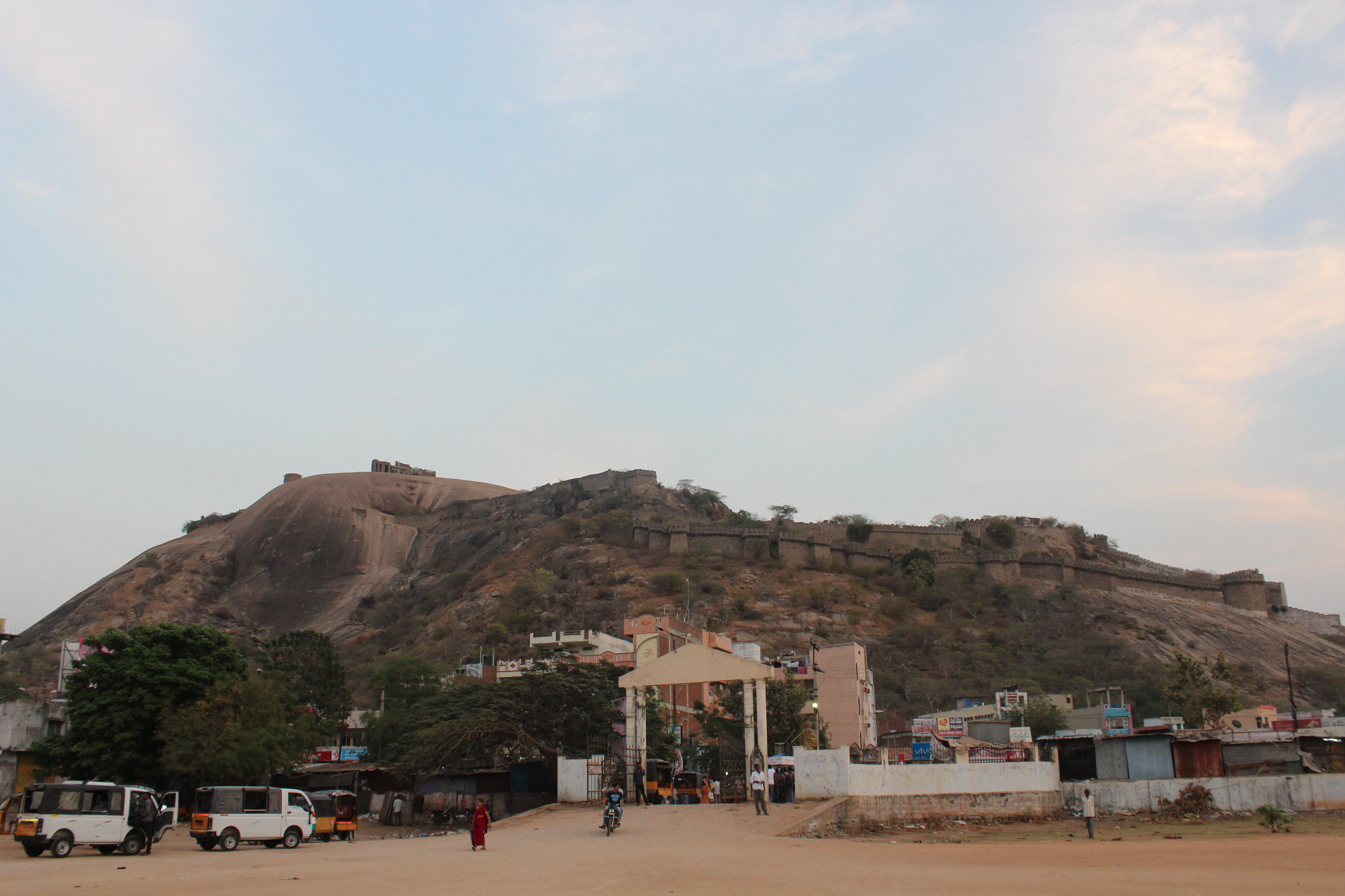 Bhongir Fort view from Bhongir Bus Stand Arch, Bhongir, Yadadri Bhuvanagiri District